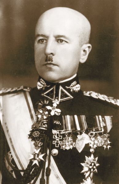 Stasys Rashtikis 1896 – May 3, 1985) was a Lithuanian military officer, ultimately obtaining the rank of General of the Lithuanian Army, as well as the Minister of Defense in the Lithuania Provisional Government.